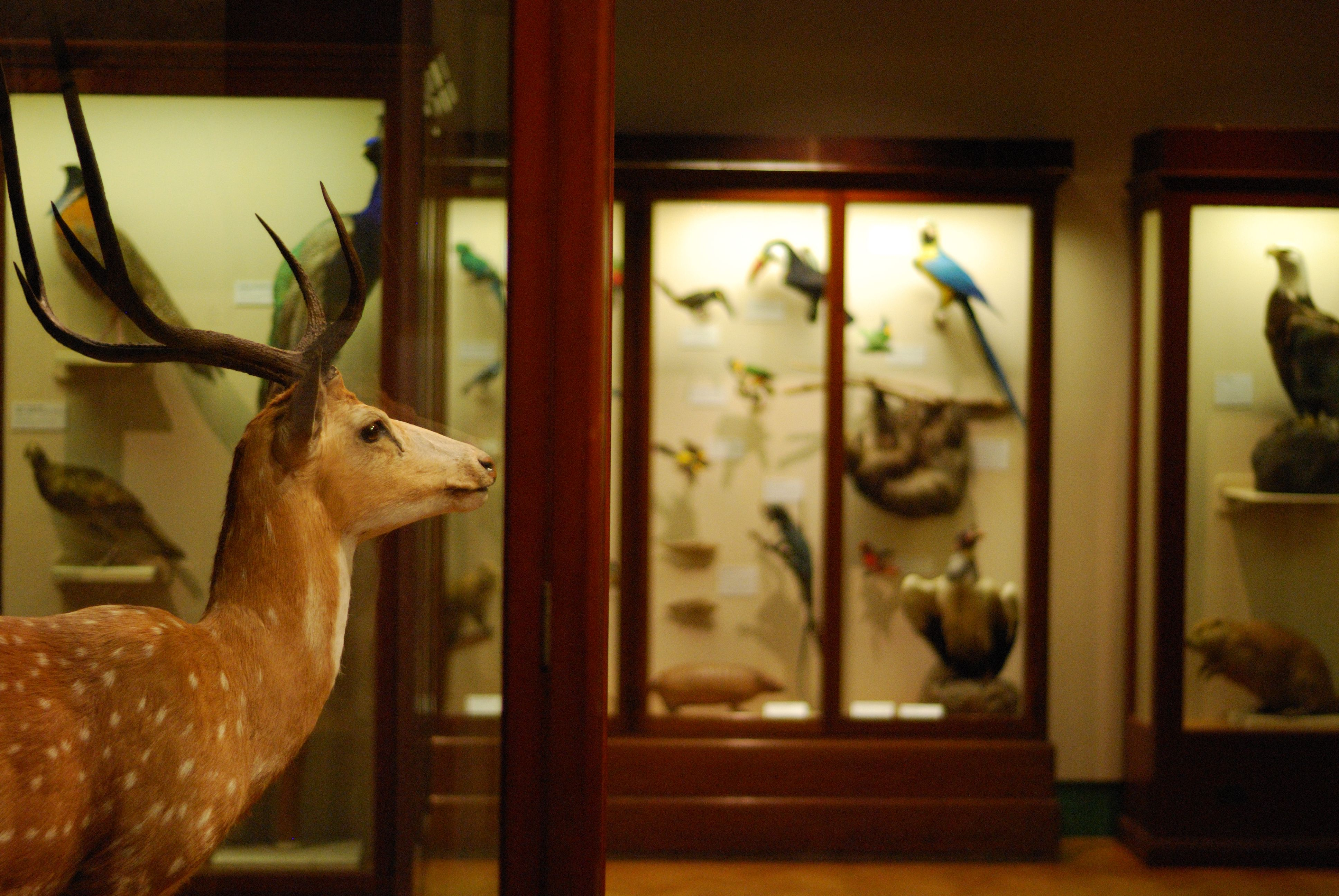 The taxidermic collections of Bristol City Museum and Art Gallery